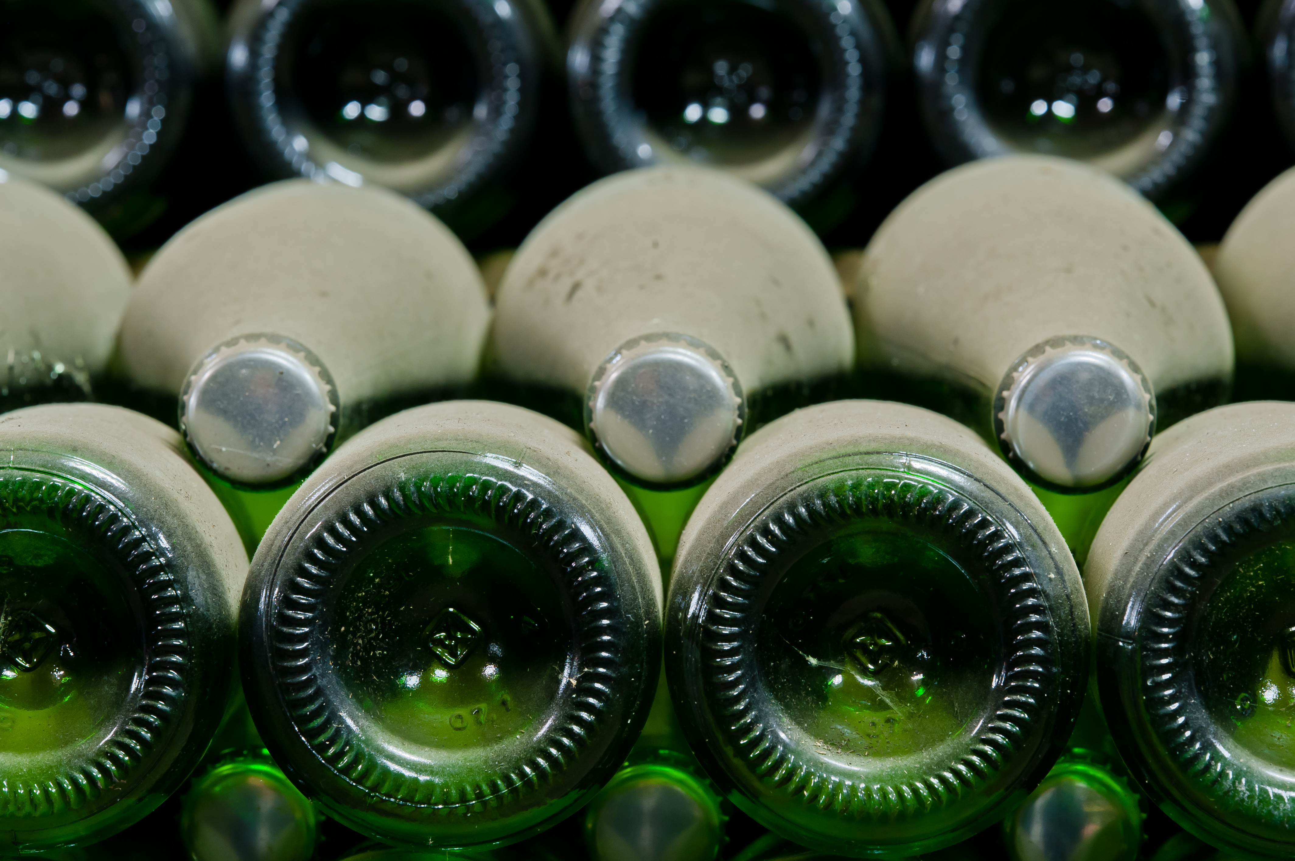 aiging of sparkling wine Artwinery